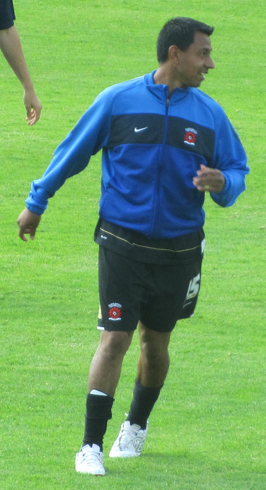 Nolberto Solano